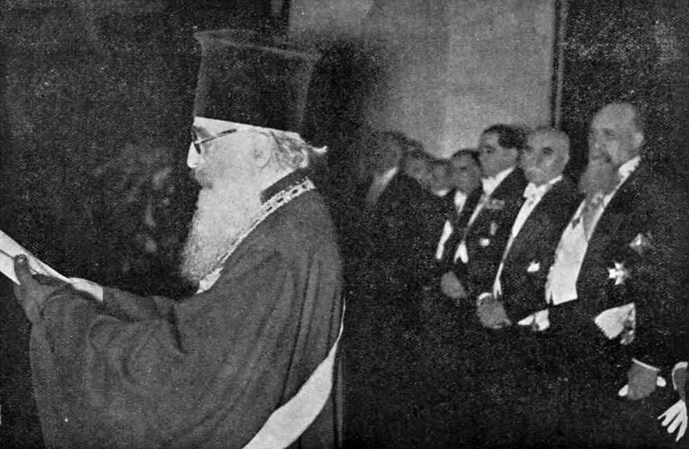 Among Cristea's ministers in the background is Gheorghe Tătărescu.